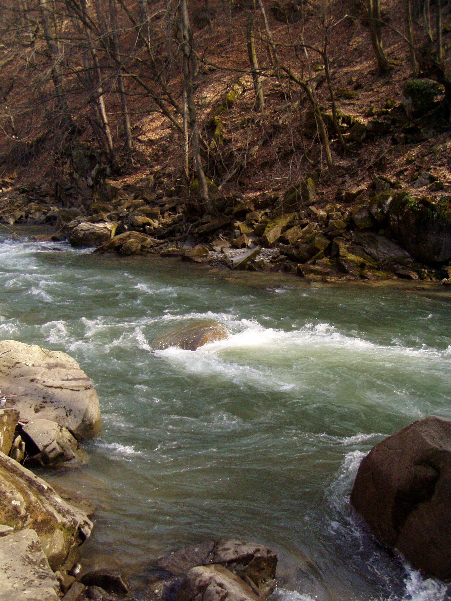 Uh river near the village of Sil